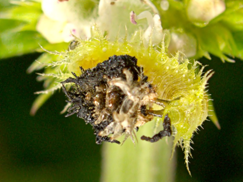 Name: Cassida viridis. Family: Chrysomelidae. Subfamily: Cassidinae. Larva on Lycopus europaeus. Location: Münster, NRW, Germany